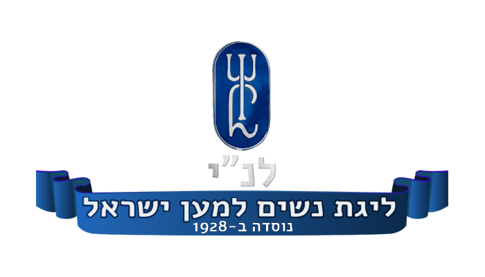 Women’s League for Israel Hebrew logo